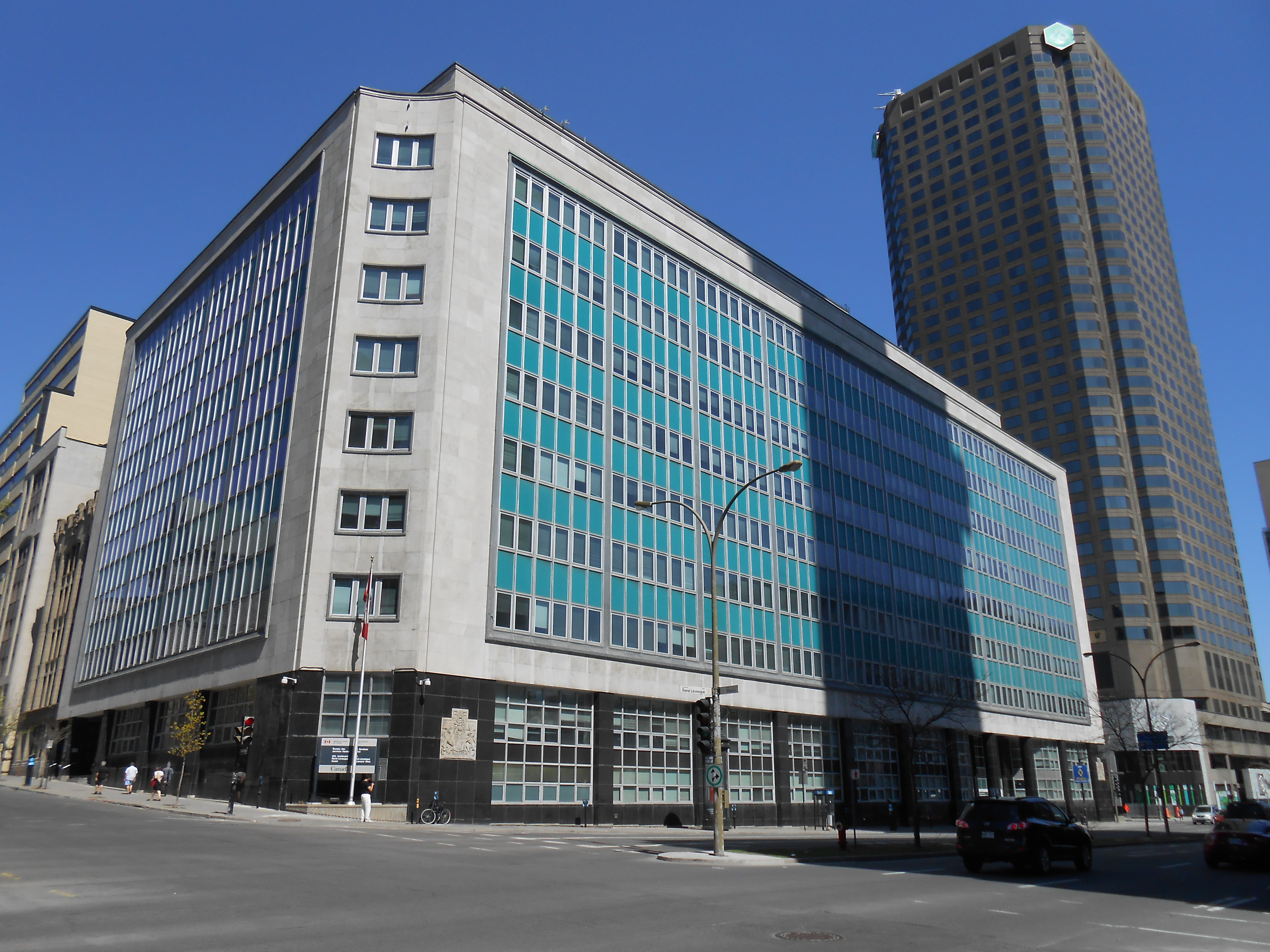 Canada Tax Agency, 305 René-Lévesque Boulevard West / Bleury, Montréal imtl